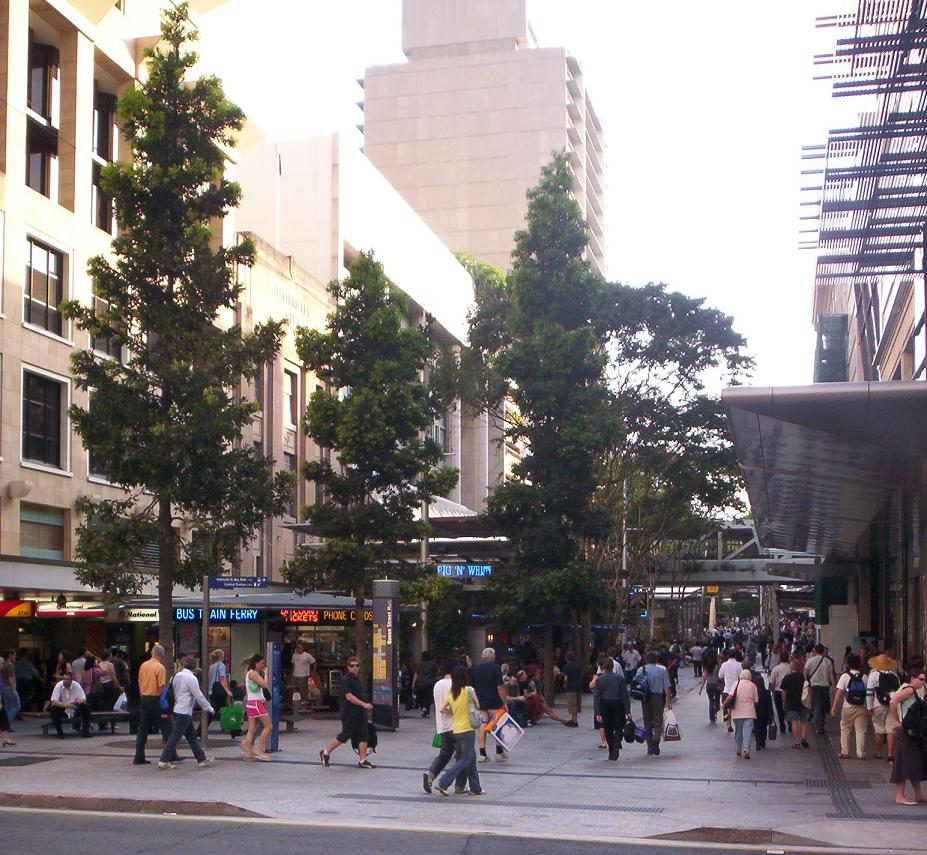 Queens Street Mall ( this photograph was taken by Figaro )